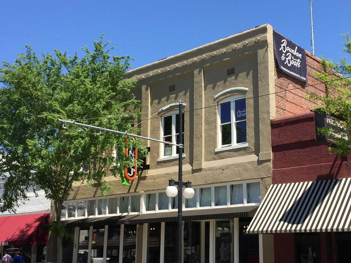 OutsideOfBourbonAndBoots